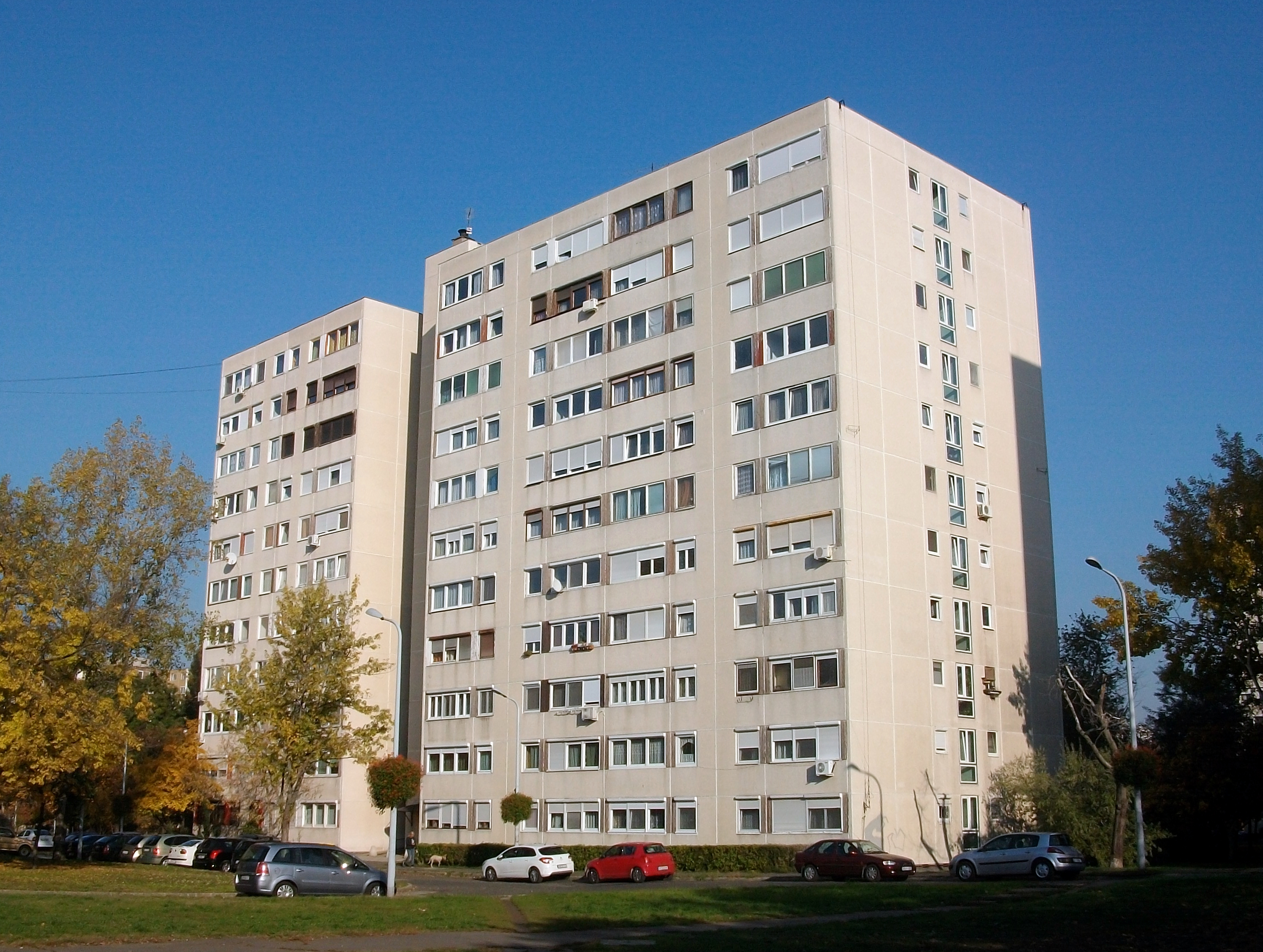 Larsen-Nielsen-type (Danish) panel building in Újpest, Budapest, Hungary